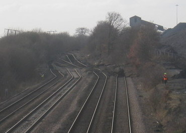 Cropped version of File:Landslip at Hatfield Colliery (1) (geograph 3333836).jpg focusing on landslip